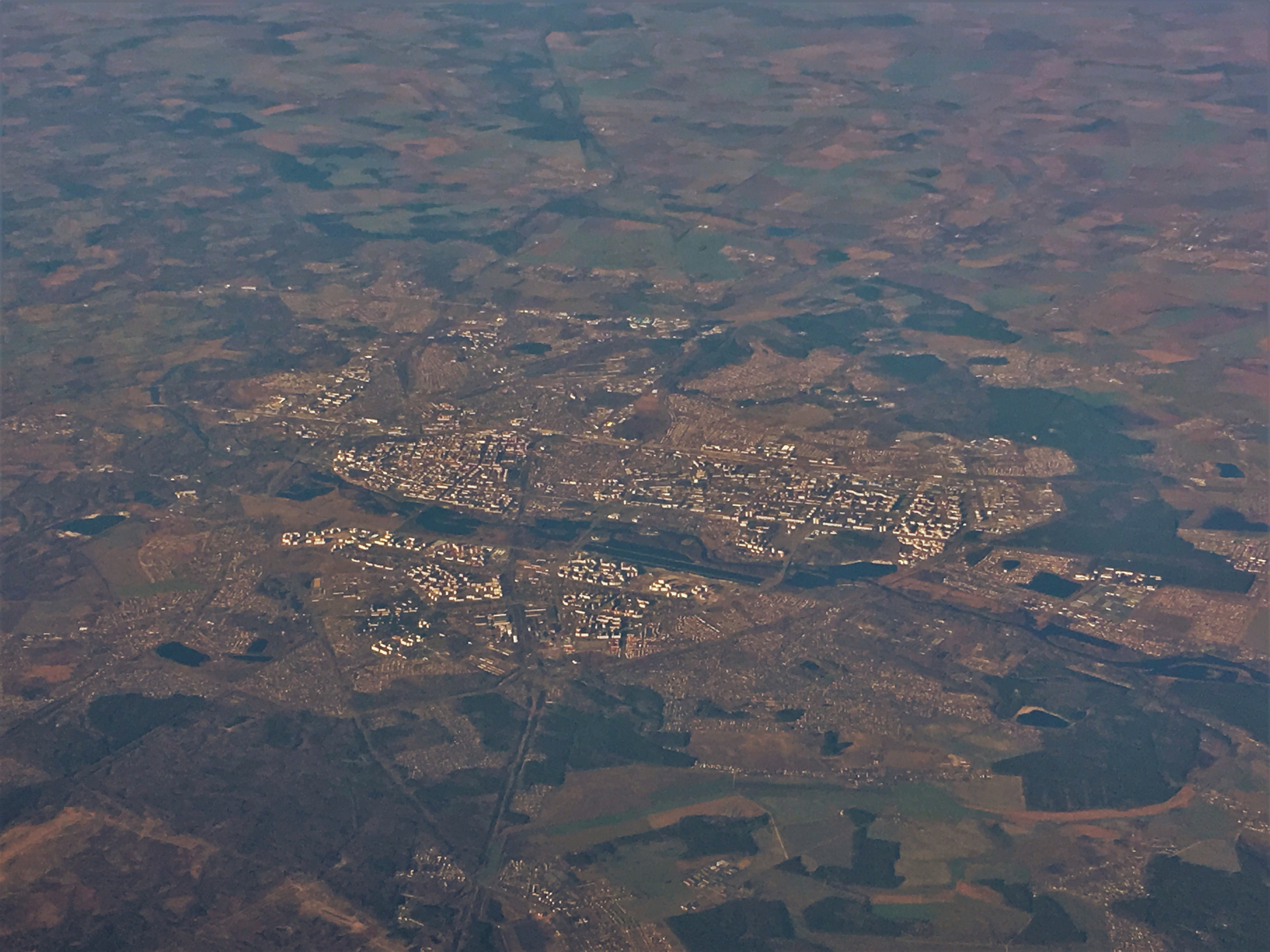 Brest, Belarus aerial view as of January, 8th 2018